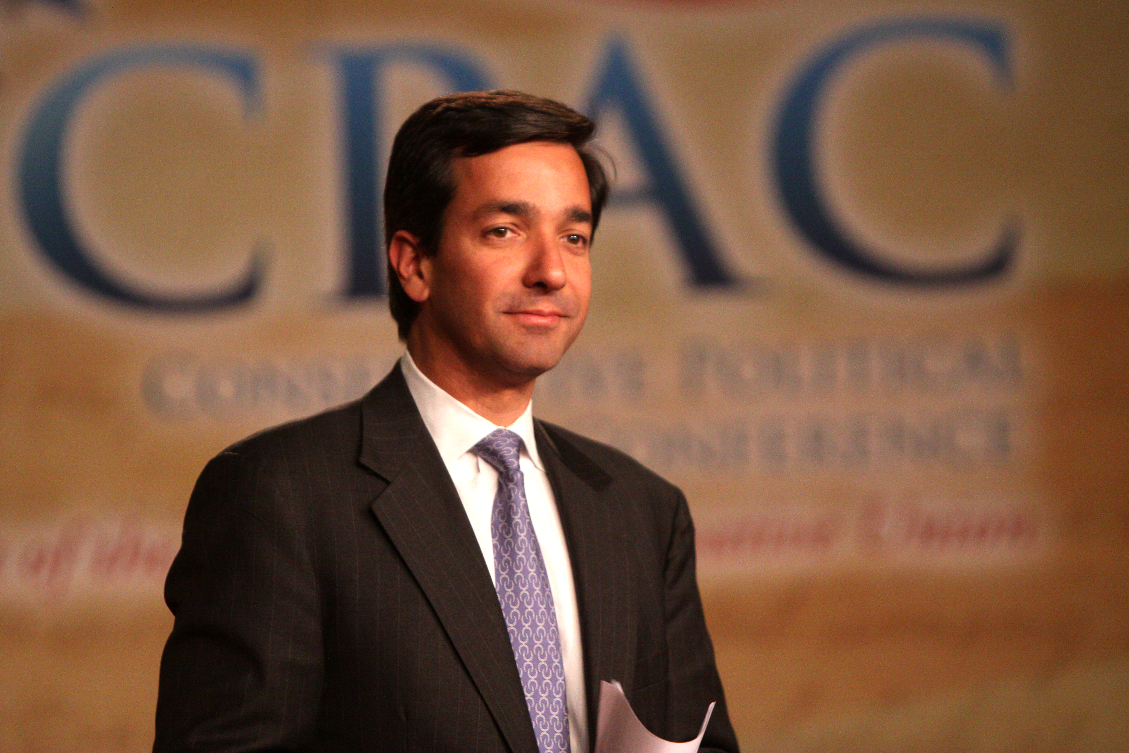 Governor Luis Fortuño speaking at CPAC FL in Orlando, Florida.